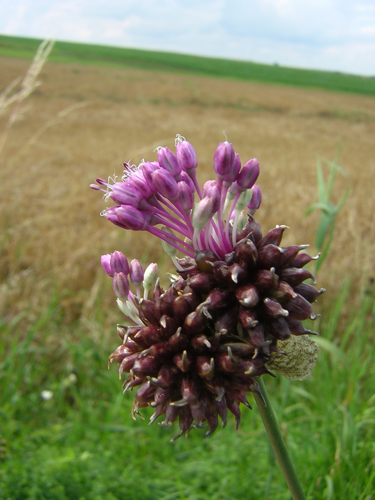 Flower of Allium vineale